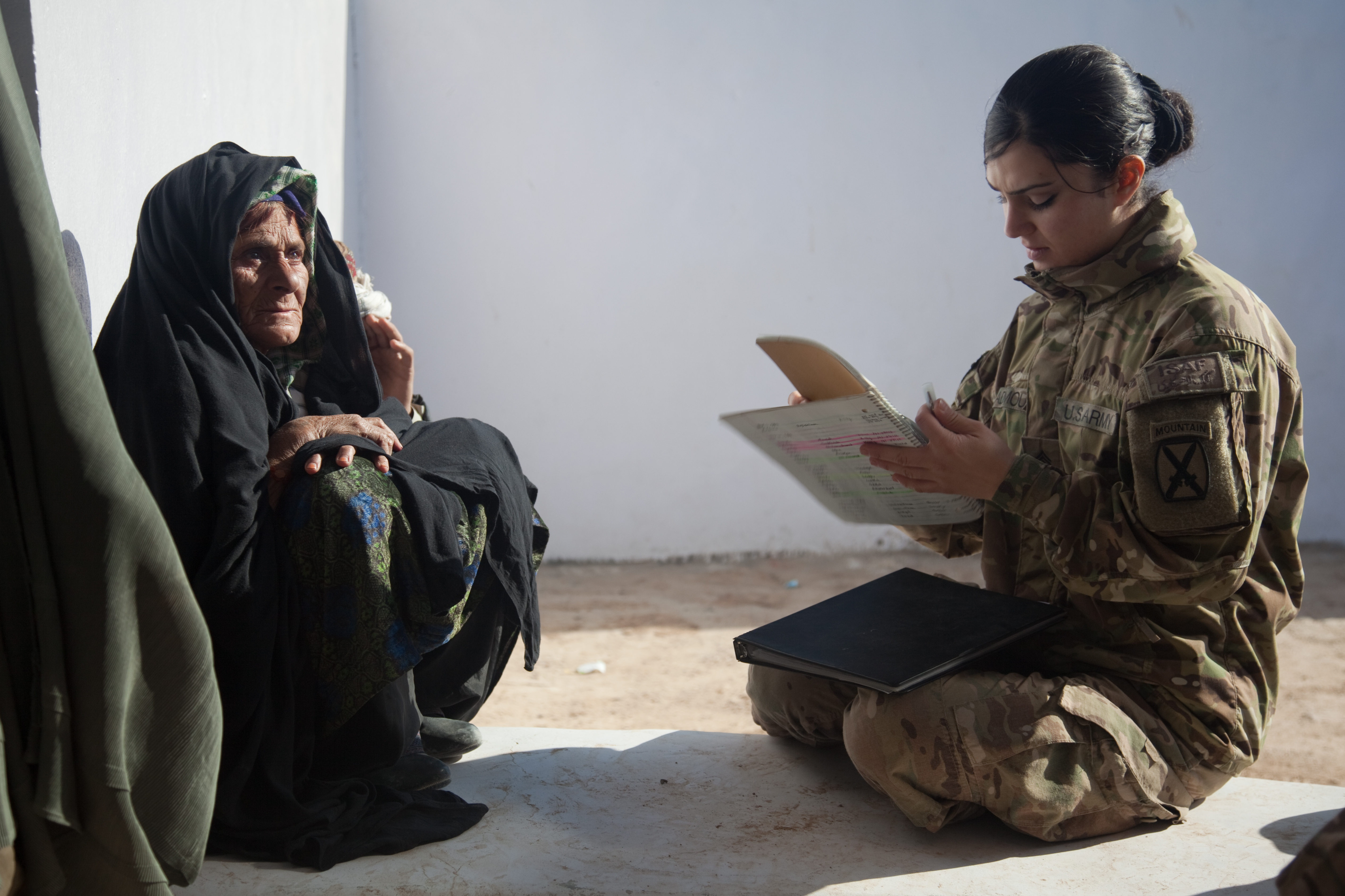 U.S. Army Sgt. Lidya Admounabdfany writes down information from a local woman at the Woman's Center near the Zhari District Center outside of Forward Operating Base Pasab, Kandahar province, Afghanistan, Dec. 17, 2011. Admounabdfany is a member of 3rd Brigade, 10th Mountain Division's Female Engagement Team and is gathering information from women so the FET can distribute blankets and winter clothing to the women and their families. (U.S. Army photo by Spc. Kristina Truluck, 55th Signal Company (COMCAM)/Released)